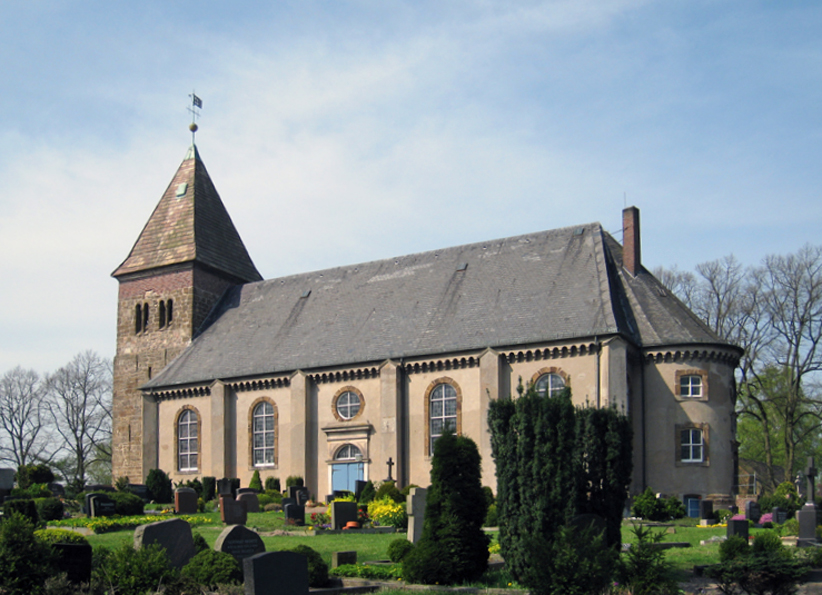 St. Johannis Kirche (St. John’s church) in Arbergen in Bremen, Germany. The church tower is from the 11th century, the nave from the year 1719).